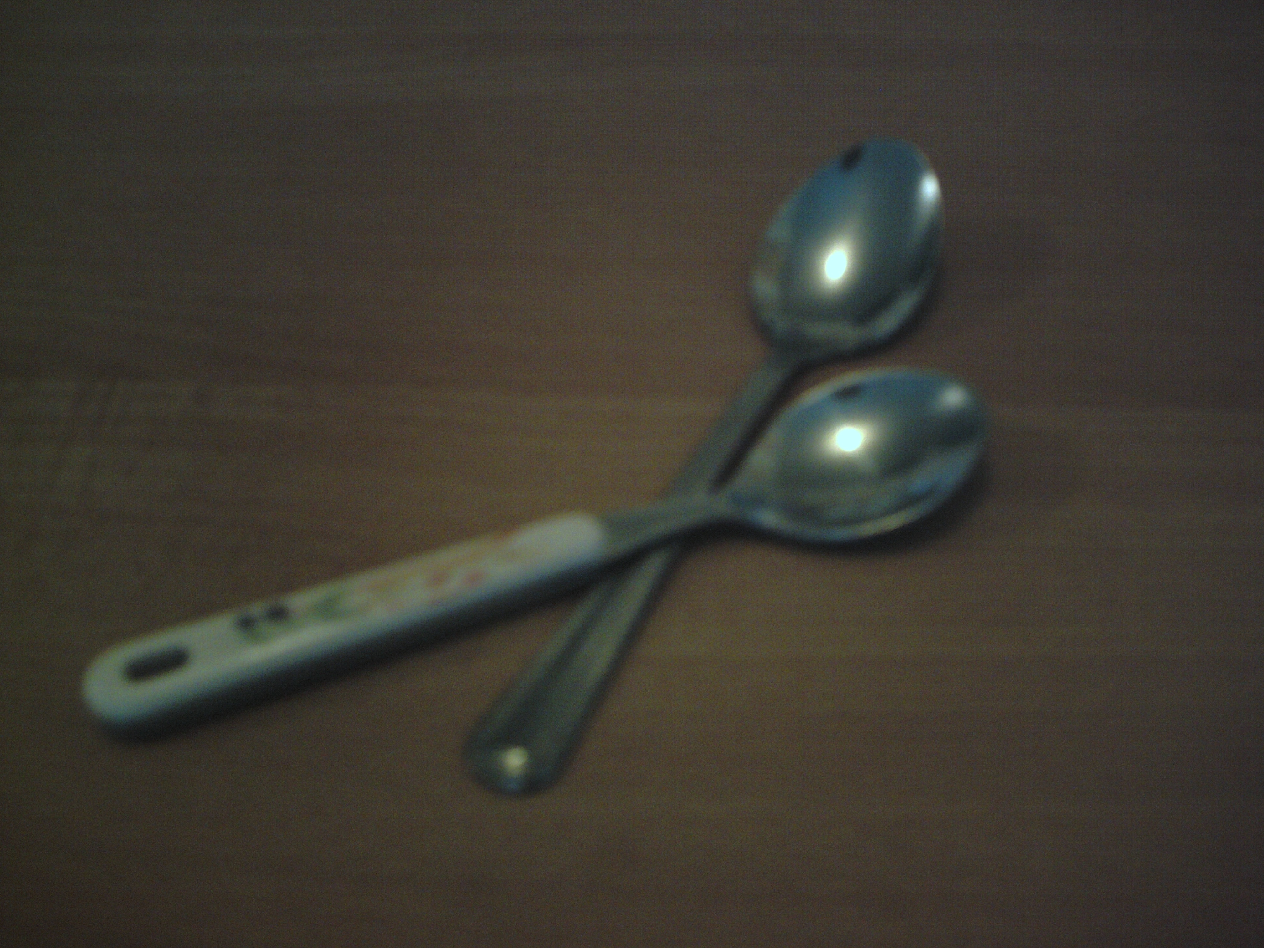 Two teaspoons